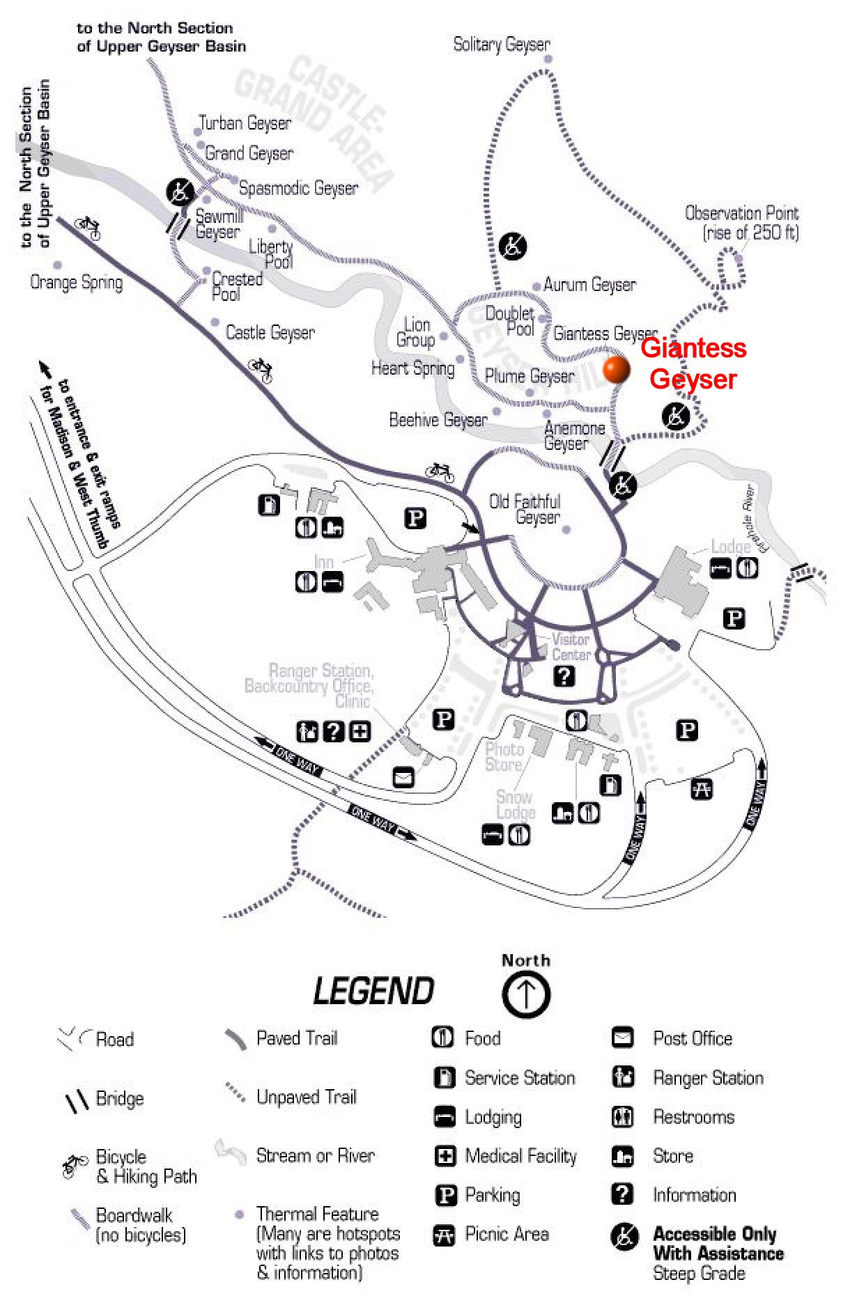 Map of Southern section of Upper Geyser Basin, Yellowstone National Park with Giantess Geyser annotated